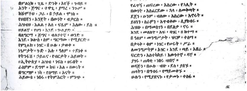 A poem praising Emperor Menelik in the newspaper Aimro (Nehasw 10, 1916 E.C.)